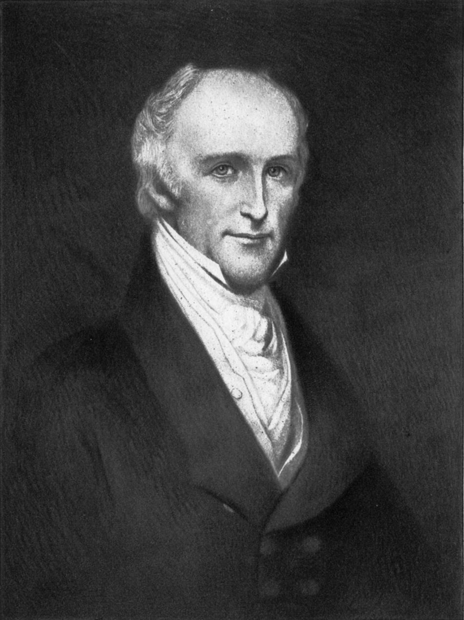 portrait of Richard Rush